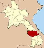 Map of Laos highlighting the province Savannakhet.